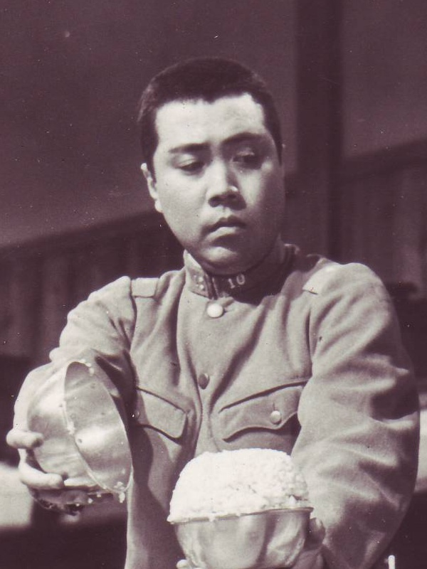 Kanbi Fujiyama (Comedian from Japan). Studio Still of the 1963 Japanese film "Haikei Tenno Heika Sama (from Emperor Hirohito)" (Shochiku Co., Ltd.).